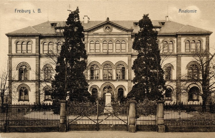 The Old Insititute of Anatomy, Freiburg, Breisgau. 1910.